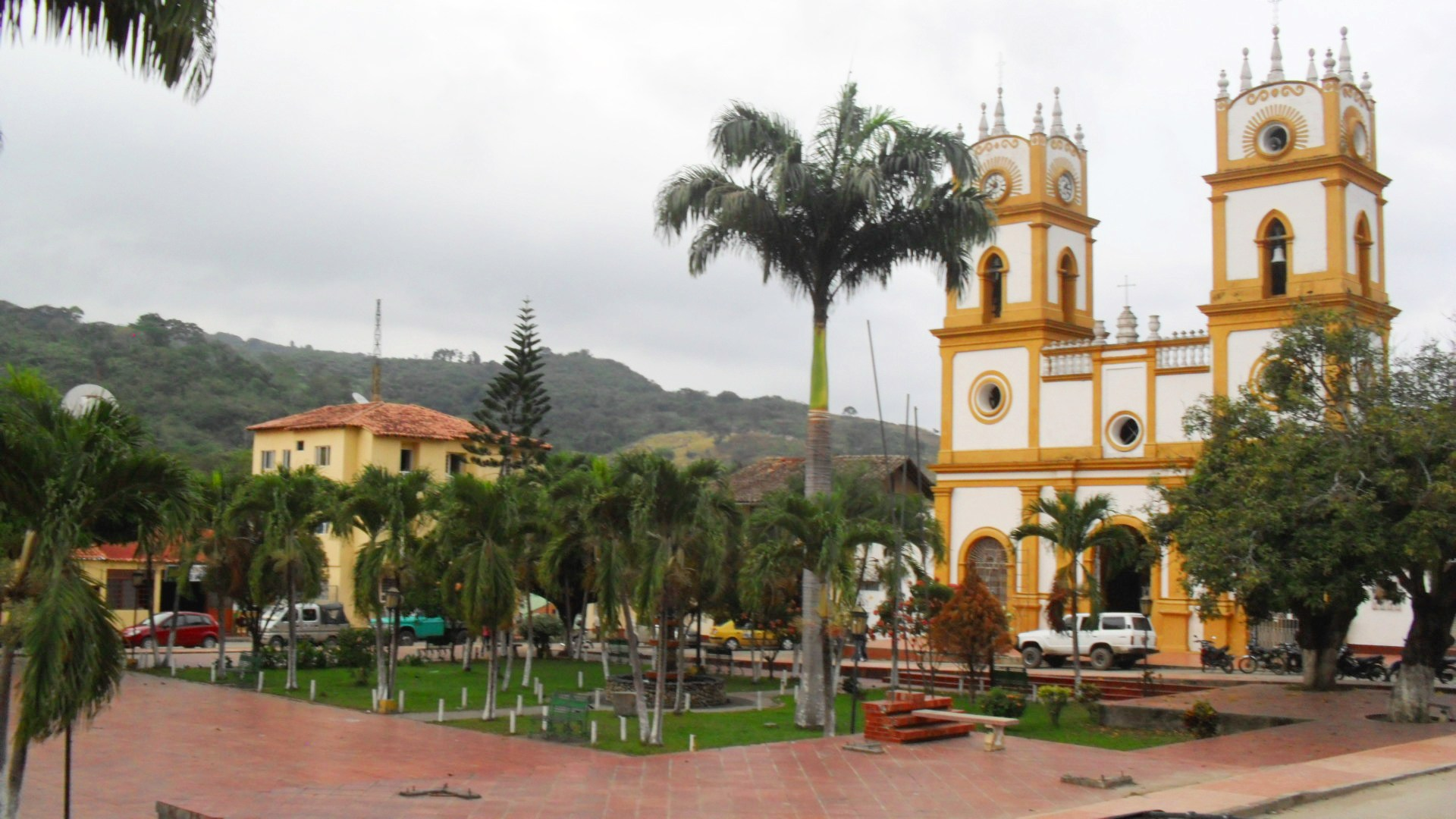 picture of village santiago norte de santander,colombia